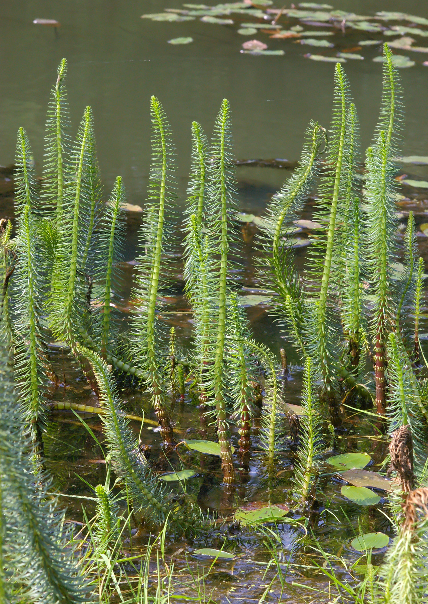 Plants of Common mare's tail, Hippuris vulgaris.